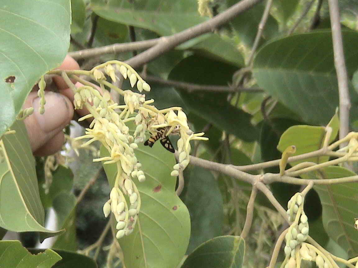 Flowers of Shorea johorensis